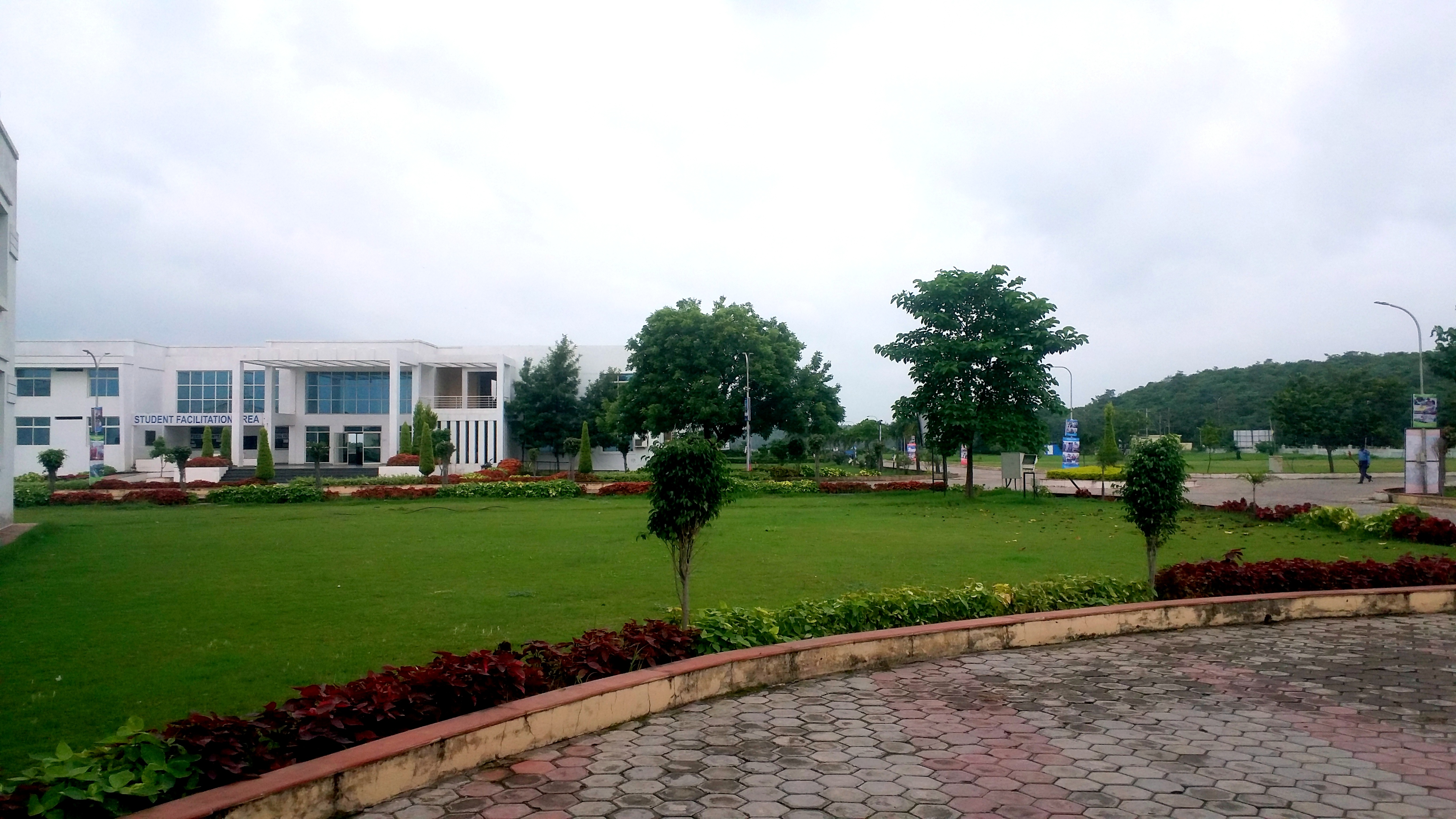 AISECT University Campus